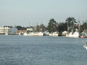 Georgetown harbor